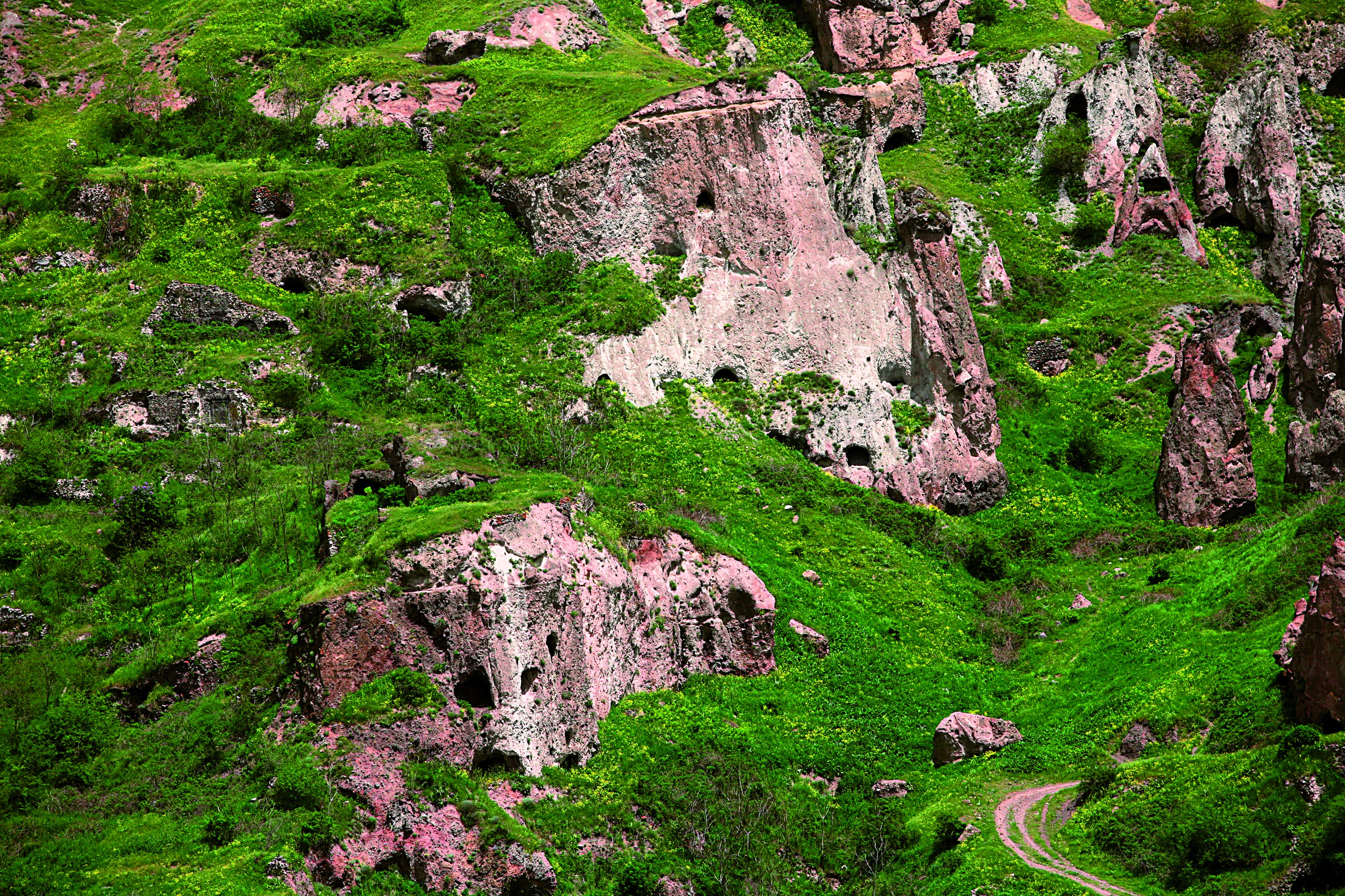 Khnatsakh Crow Caves